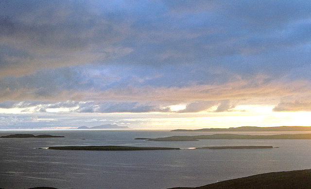 Evening view west from the Ness of Westshore